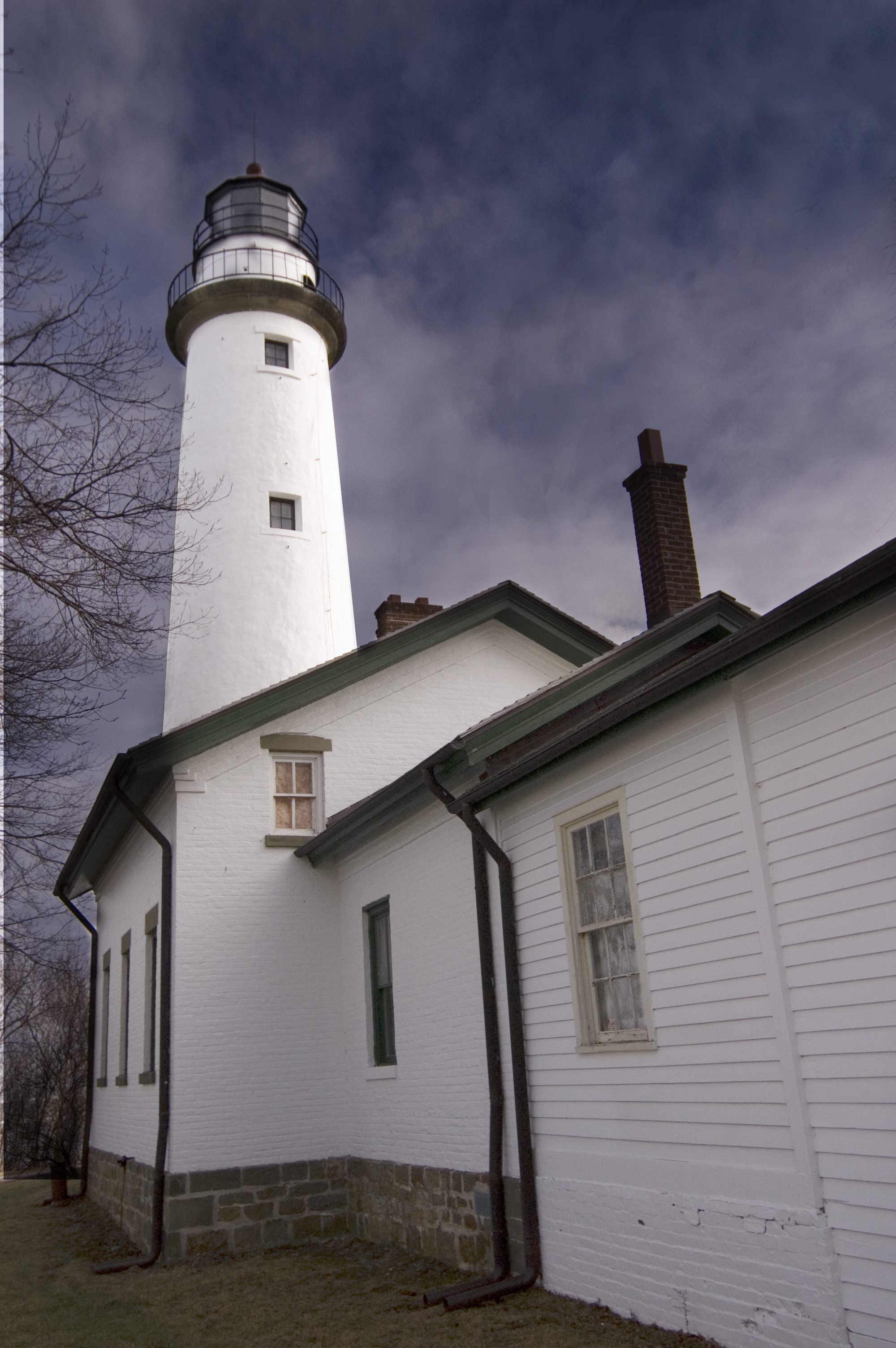 Pointe aux Barques Light near Port Hope, Michigan, USA